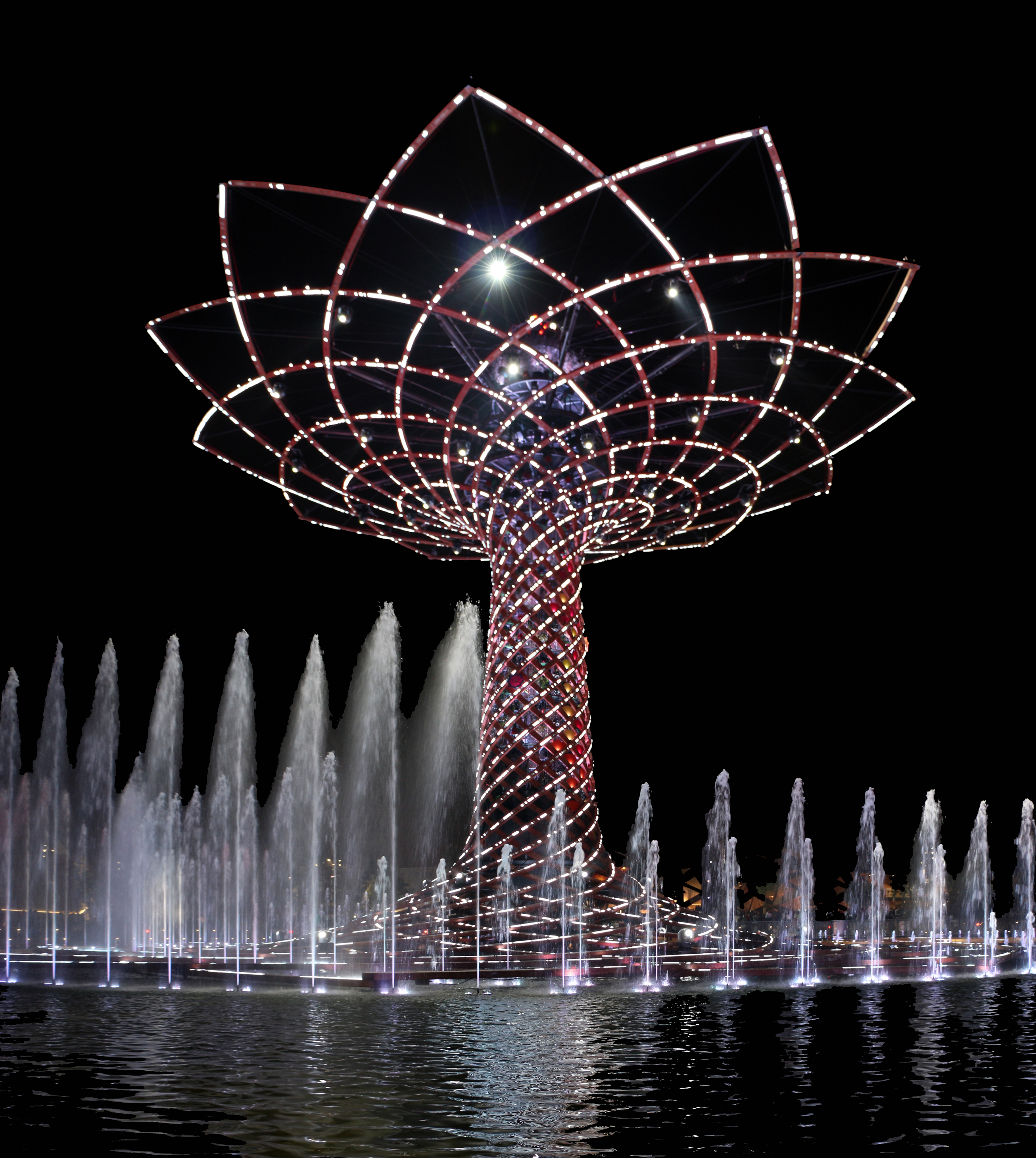 Albero della vita (Expo 2015)